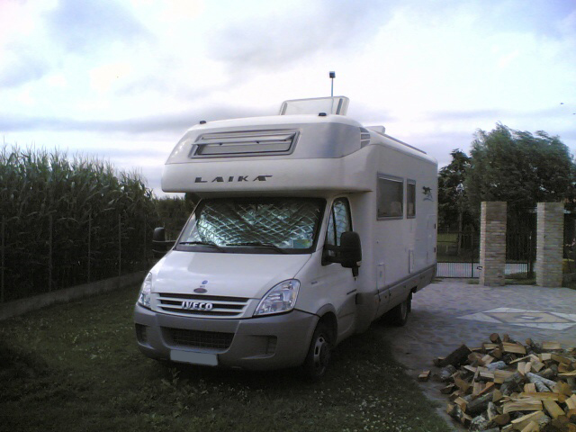 IVECO Daily Camper LAIKA